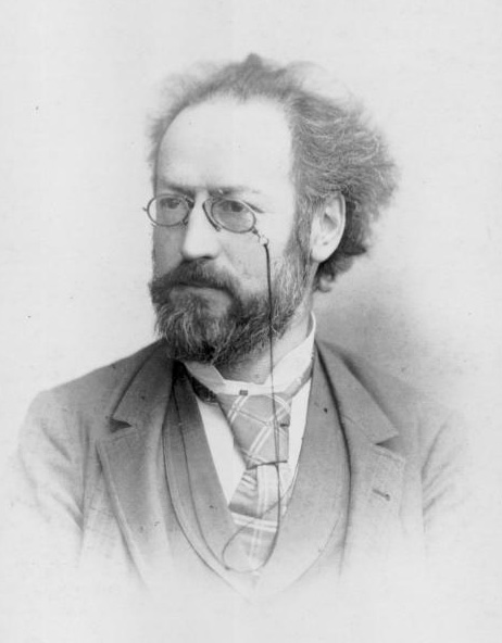 German pianist and teacher Alois Reckendorf (1841–1911)